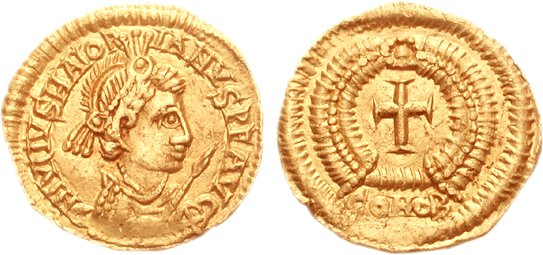 VISIGOTHS, Gaul. Uncertain king. 417-507. AV Tremissis (1.43 g, 12h). In the name of Majorian. Uncertain mint in Gaul. Struck circa 457-507. D N IVIIVS HAIOR-IANVS P F AVC, helmeted, diademed, draped, and cuirassed bust right, holding spear in right hand, shield on arm decorated with cross / Cross within wreath; COHOB. Cf. Reinhart, Münzen 65-7; cf. RIC X 3747-9; Lacam pl. 13, 52 (Arles mint); MEC 1, -; Hunter, Byzantine -.